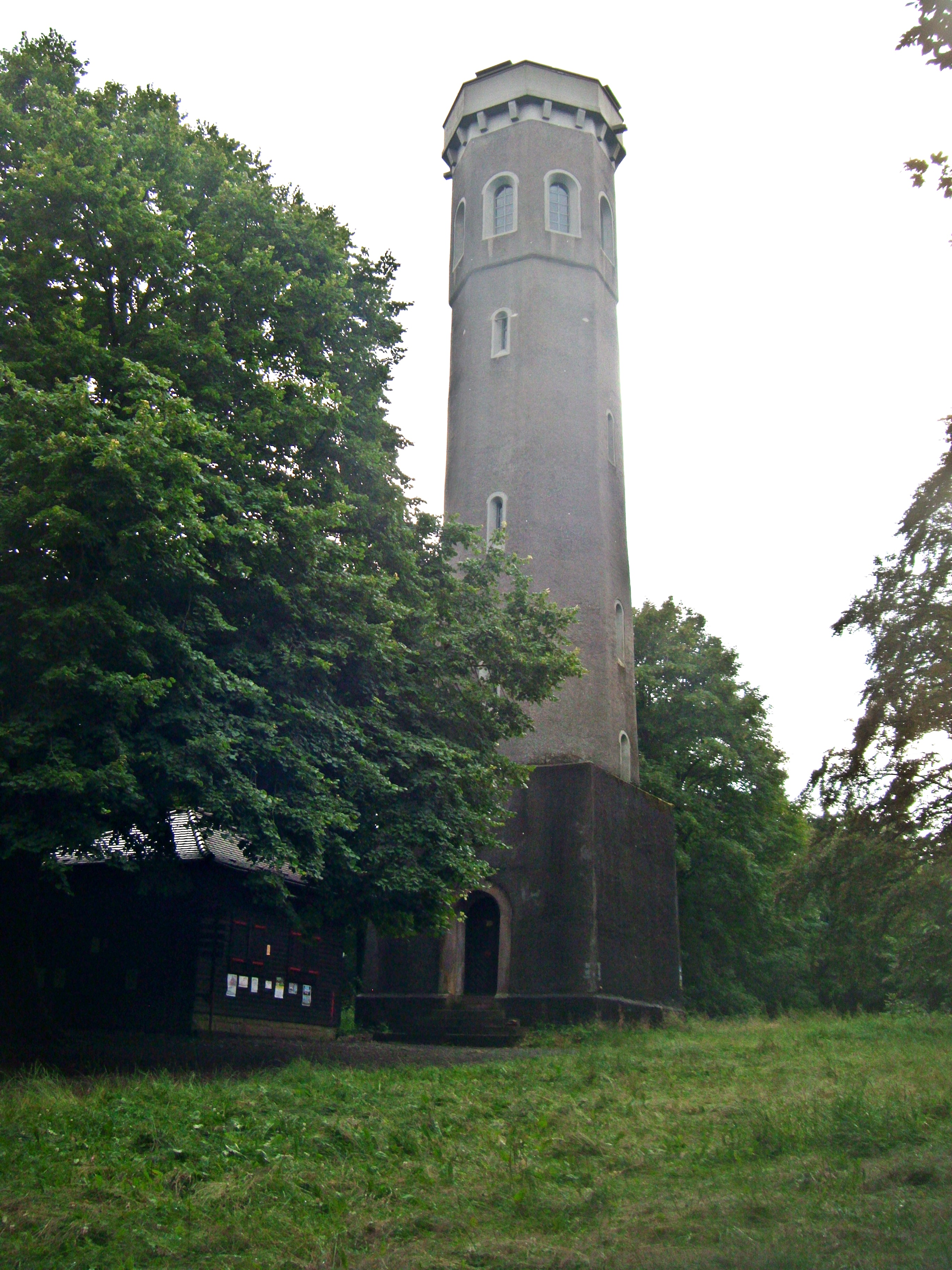 Ludwigsturm Donnersberg